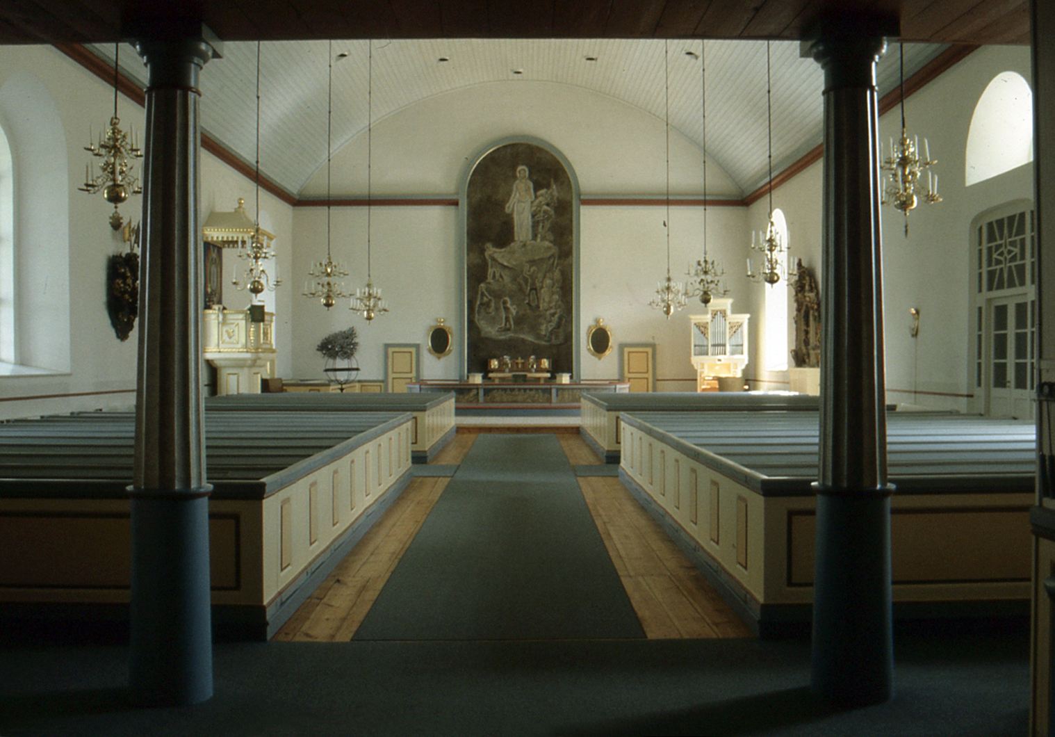 Interior of Målilla-Gårdveda kyrka